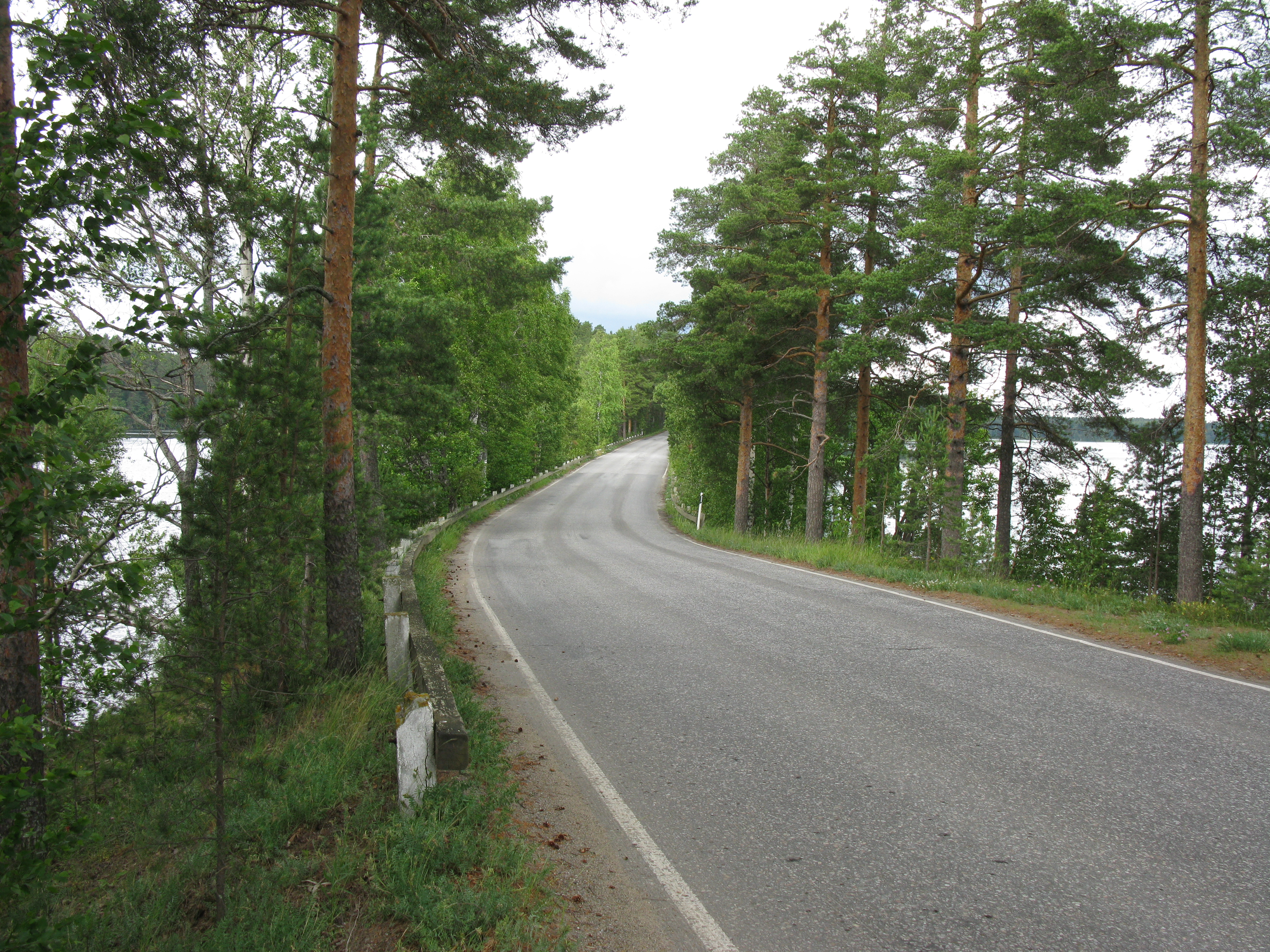 One of the best known spots of the Punkaharju ridge on the connecting road 4792 (former highway 14) in Punkaharju, Finland.